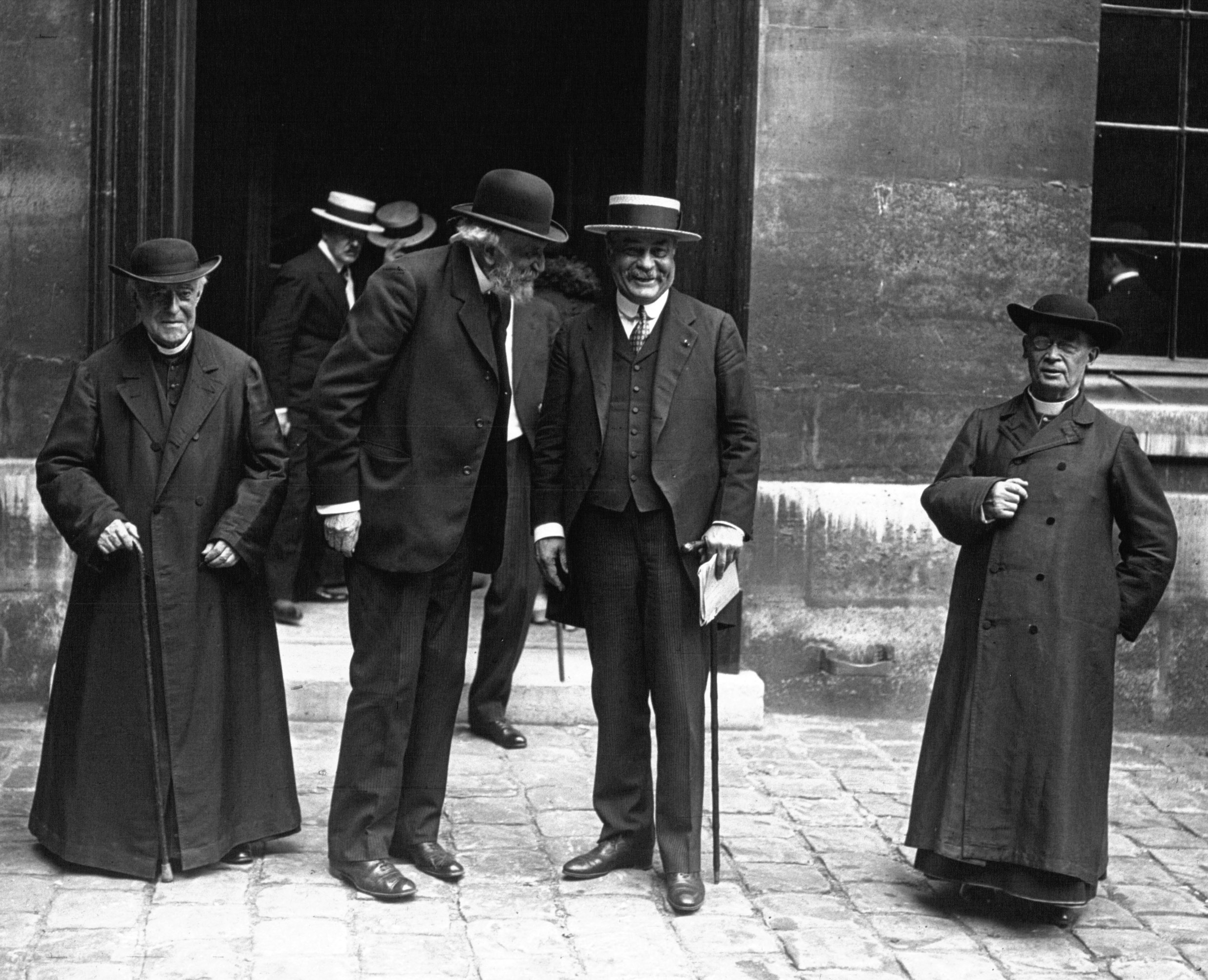 Mgr Louis Duchesne (at left) in 1921 in Paris, France, photographied by Agence Meurisse ( public domain).